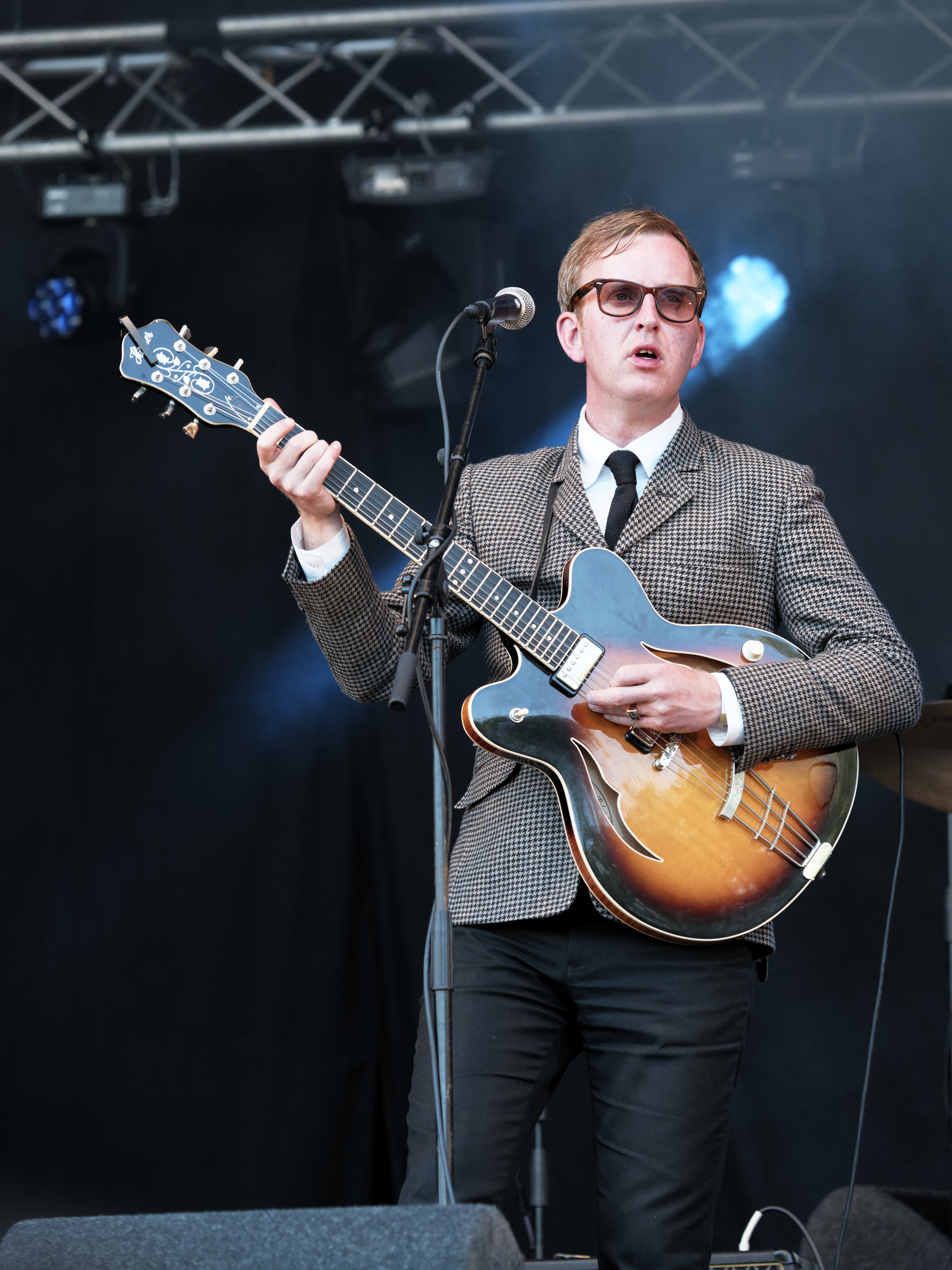 The Kik